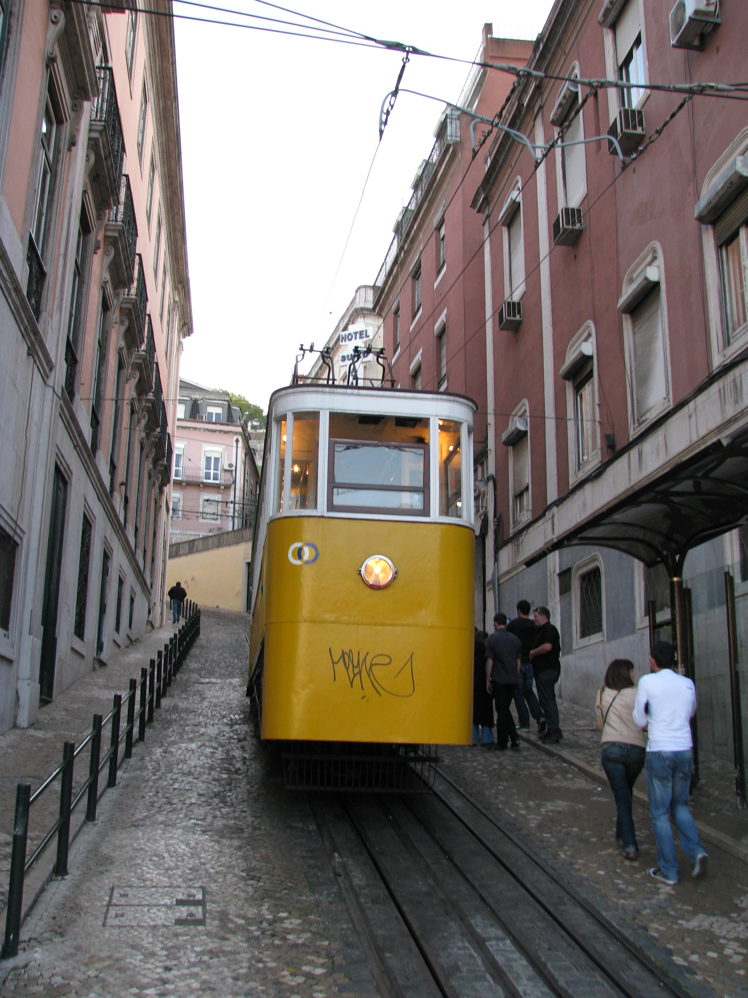 Glória Funicular, Lisbon, Portugal